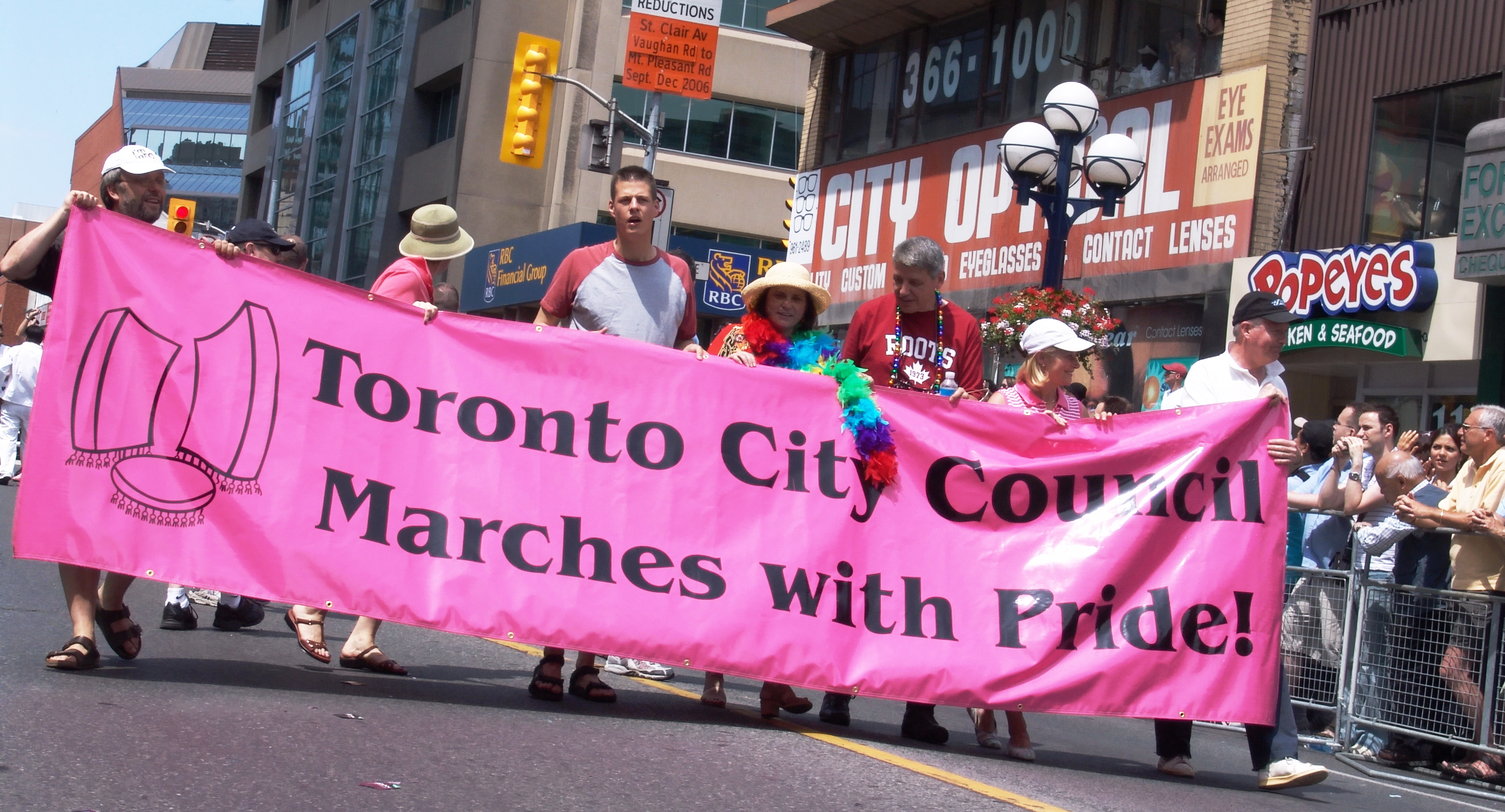 Toronto Gay Pride Parade 2006. Gay Pride Parade is the fun and fabulous arts and culture festival that happens on the last week of June each year in Toronto. Pride celebrates diverse sexual and gender identities, histories, cultures, families, friends and lives. Gay Pride Parade in Toronto attracts about 1 million tourists. More pictures...